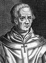 Pope Clement II